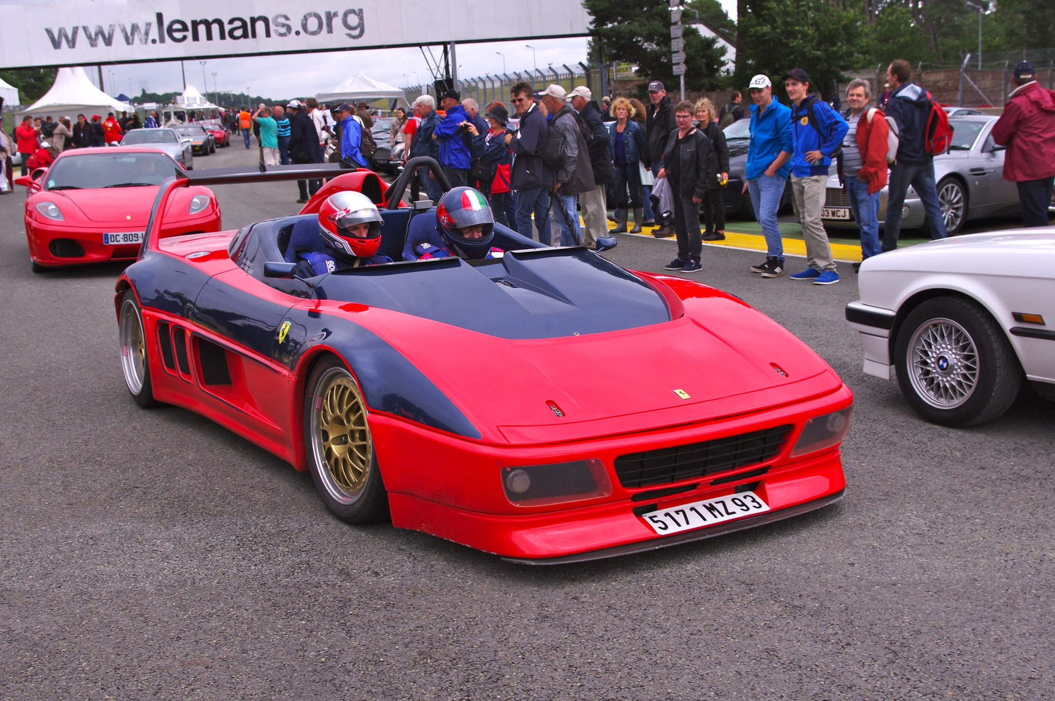 Le Mans Classic 2014. Chassis #84778, rebodied after wreckage.[1]